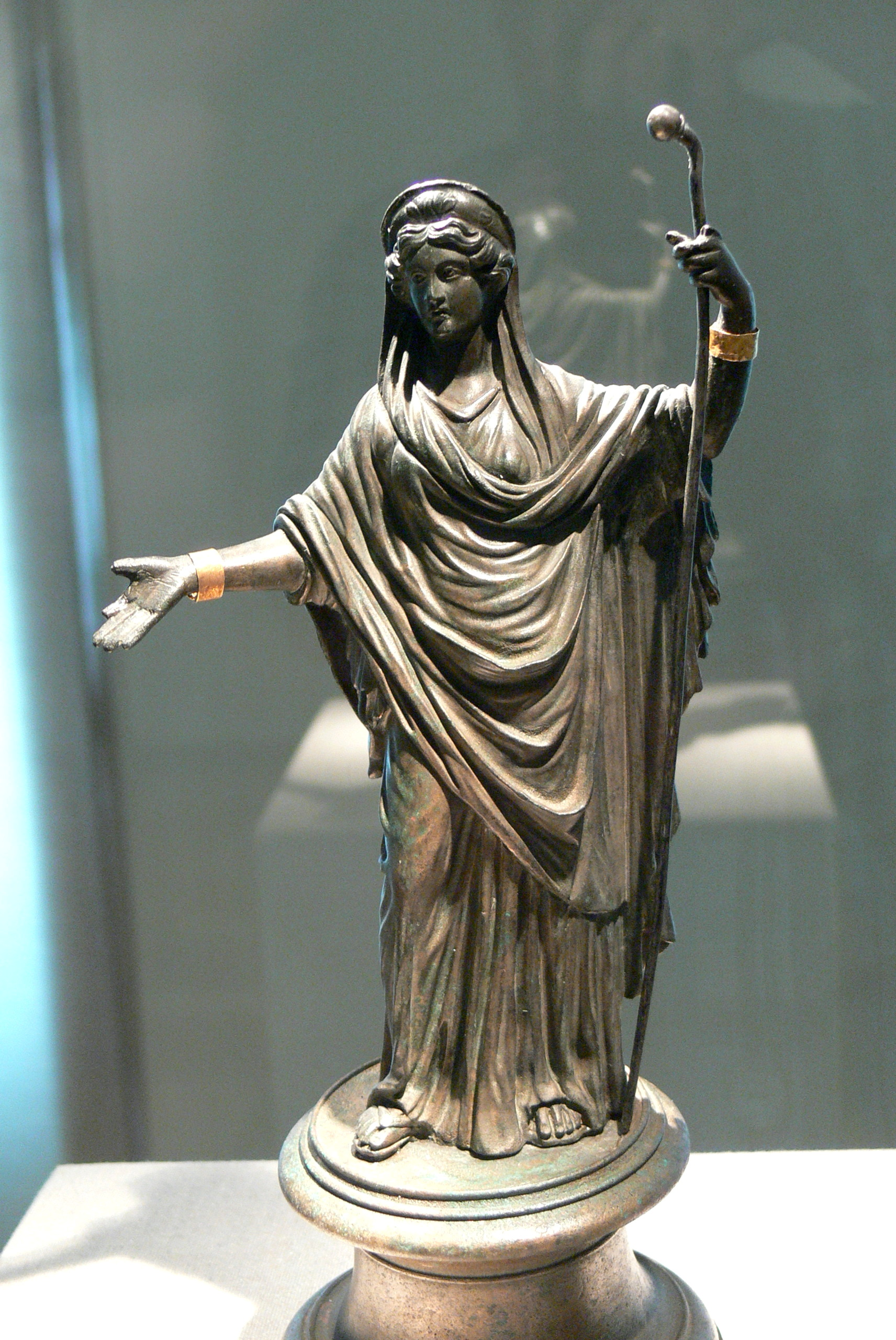 Weißenburg ( Bavaria ). Roman Museum: Bronze statue of Iuno ( 2nd/3rd century AD ).